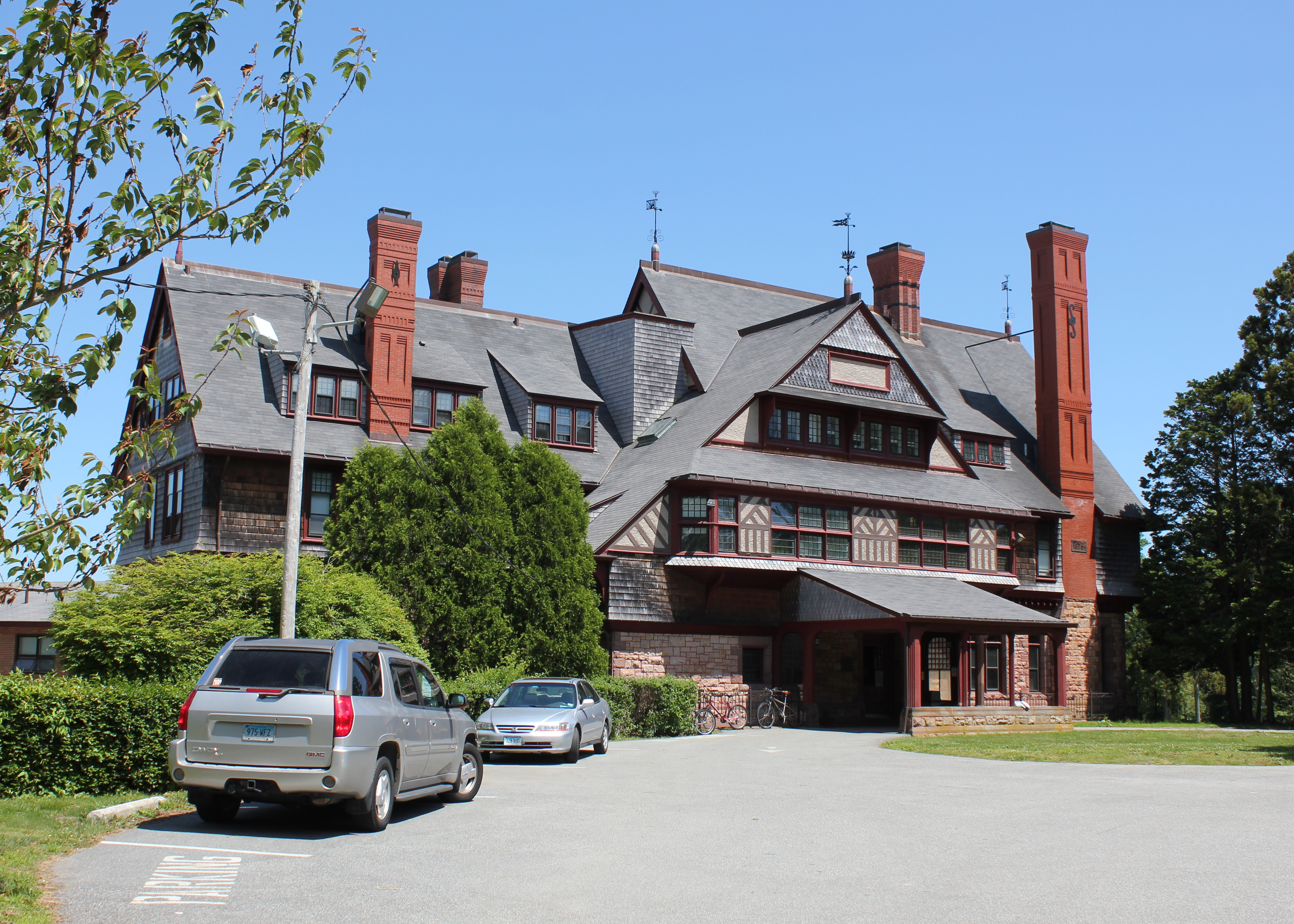 The William Watts Sherman House in Newport, RI, June 14, 2018